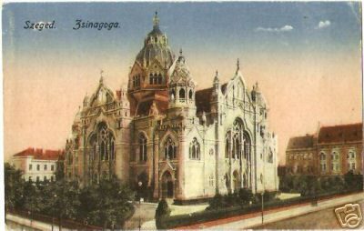 New synagogue of Szeged, built in 1900-1902. Postcard of 1913.